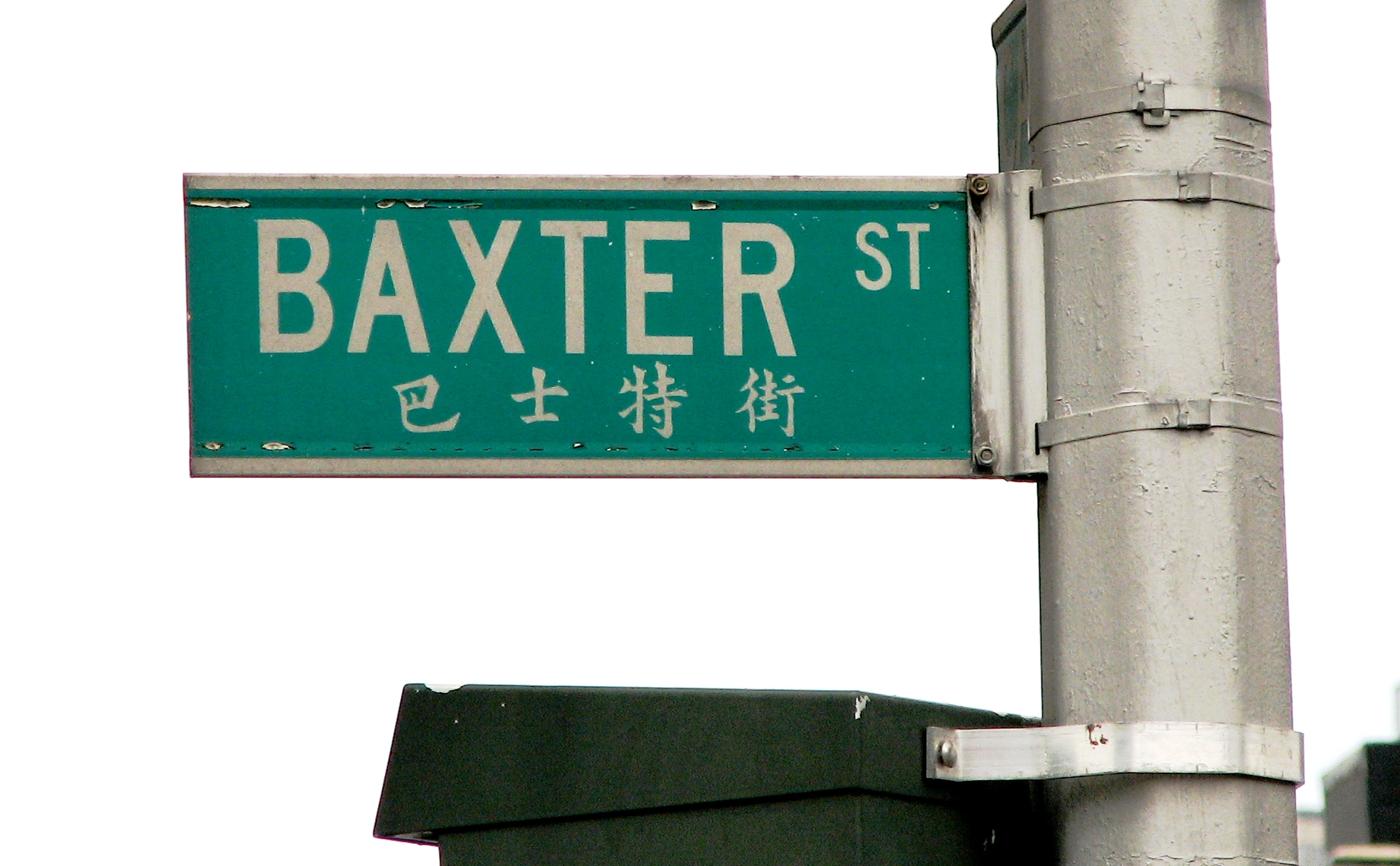 Baxter Street (巴士特街) sign with Chinese script in the New York Chinatown.